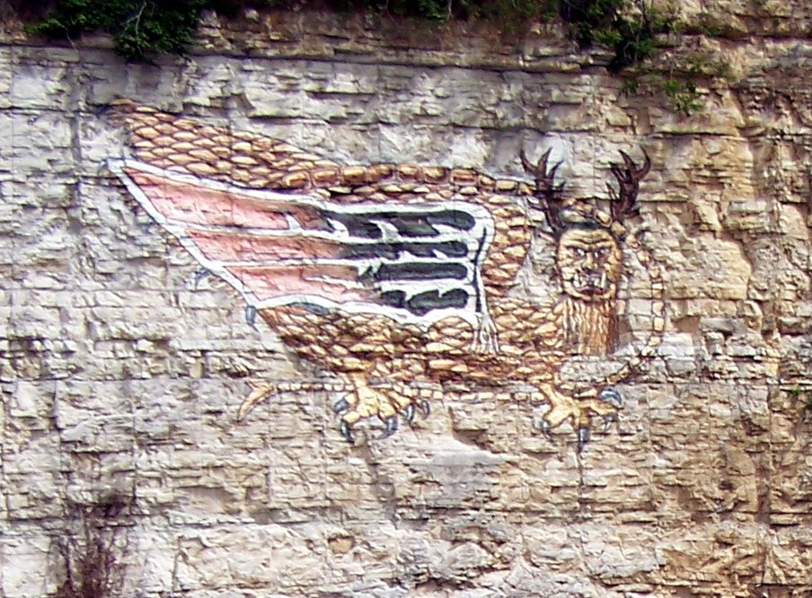 This modern painting of the Piasa Bird is maintained on the Mississippi River bluffs in Alton, Illinois.